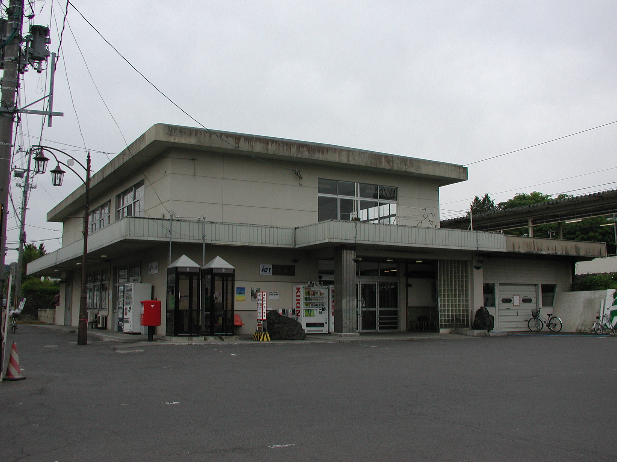 ichinohe Station